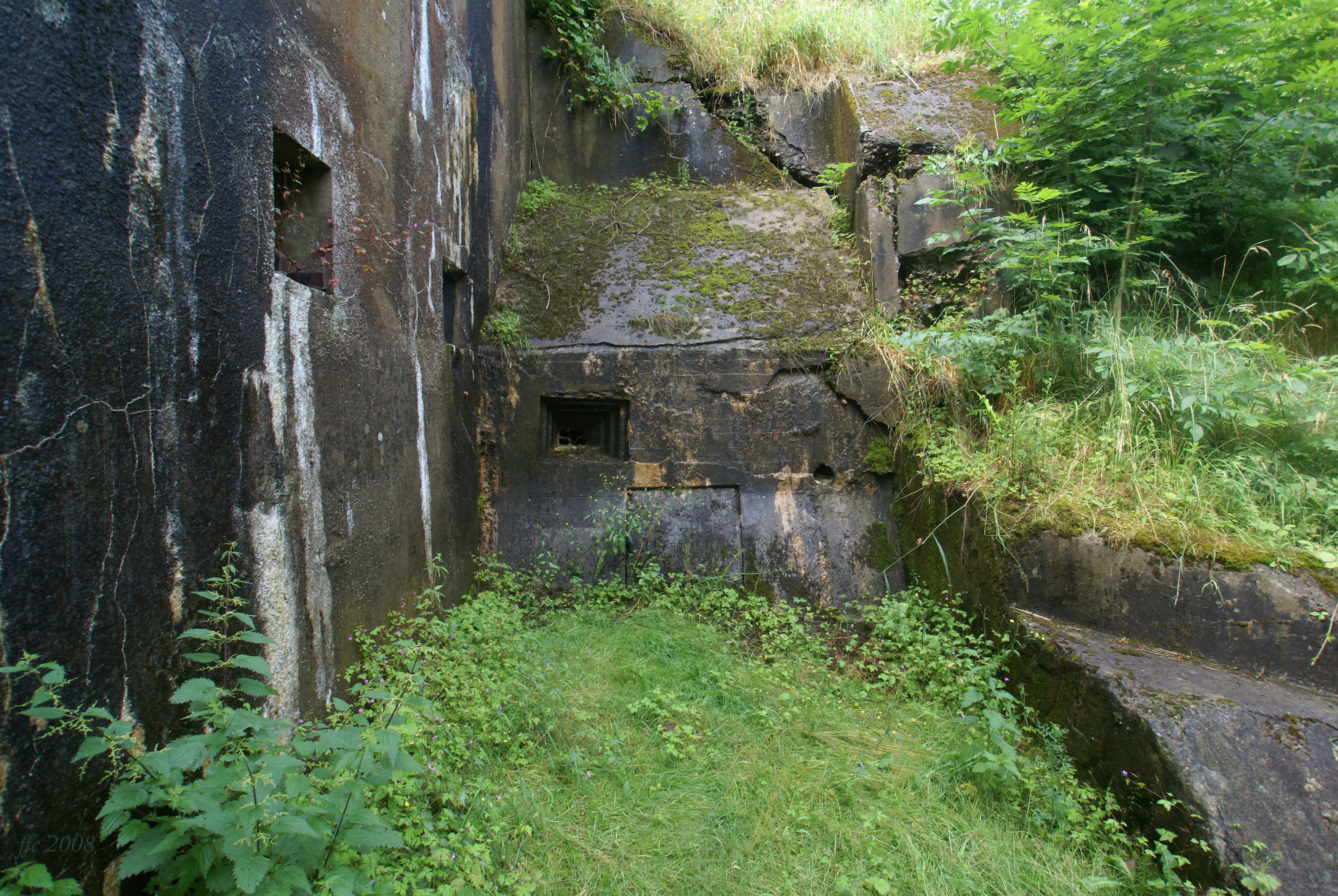 Fort d'Embourg, Chaudfontaine (Belgium): gun embrasures